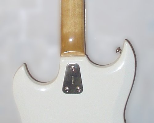 A back plate on 3-screw bolt-on guitar neck on Hagstrom IIi guitar